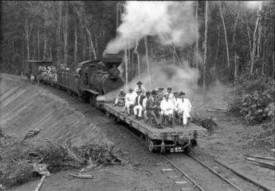 Autoridades em inauguração de trecho da EFMM